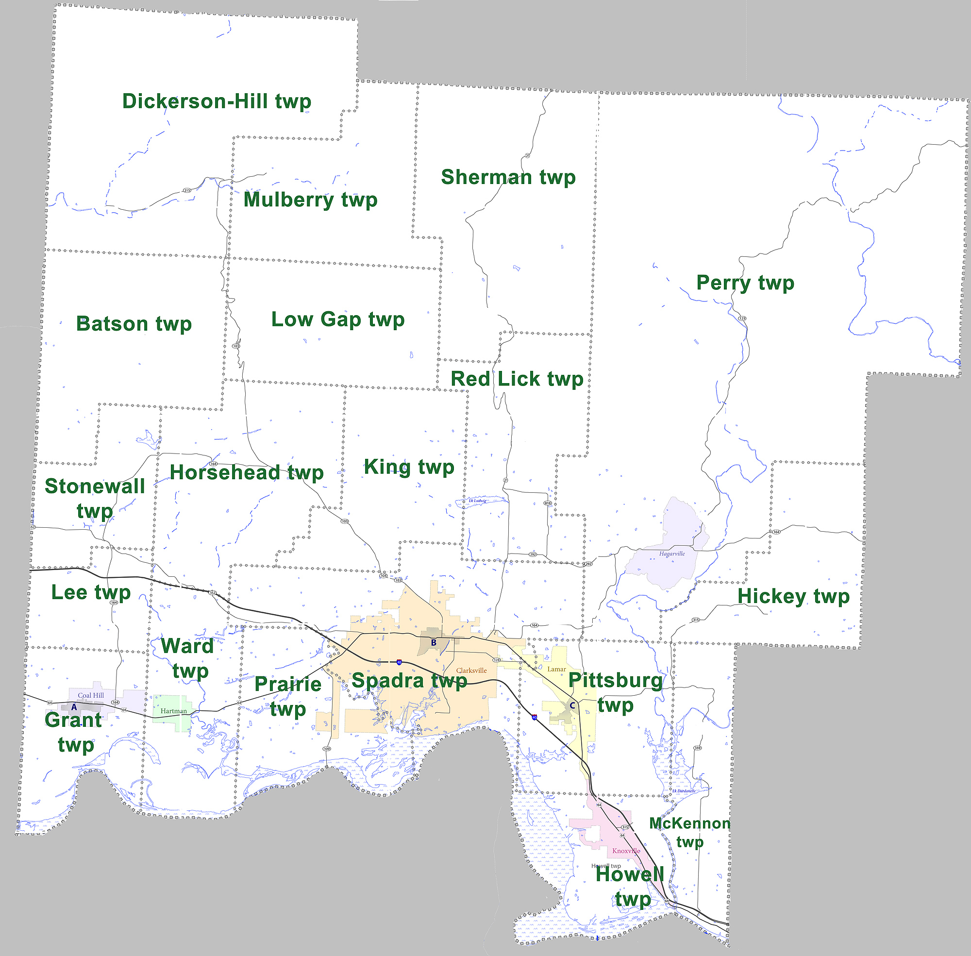 Large map showing townships in Johnson County, Arkansas. Modified from US census map (for 2010 census) for Johnson County, Arkansas